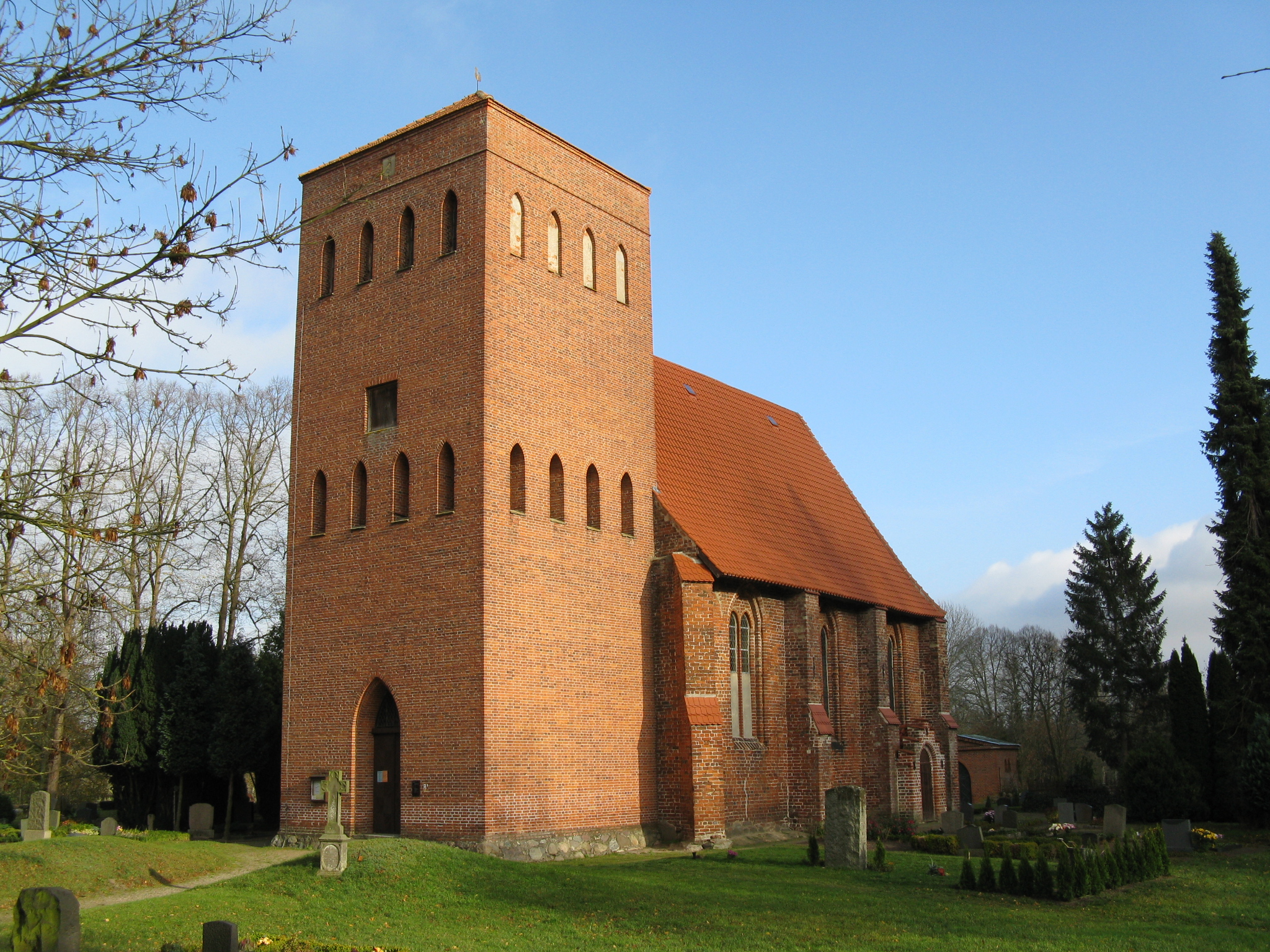 Church in Goldebee, Mecklenburg-Vorpommern, Germany